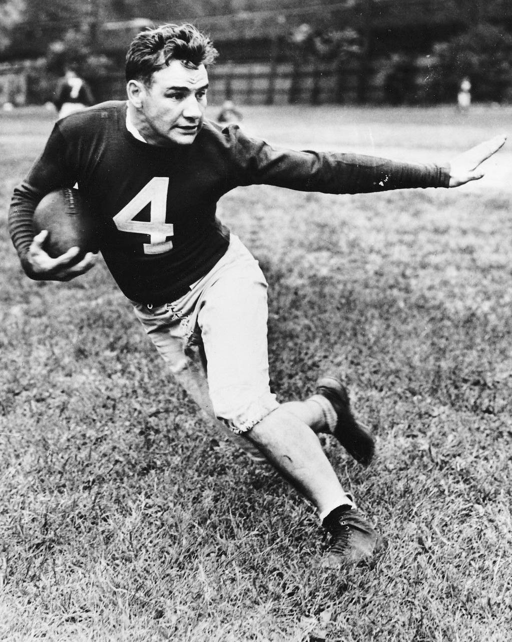 American footballer Tuffy Leemans.